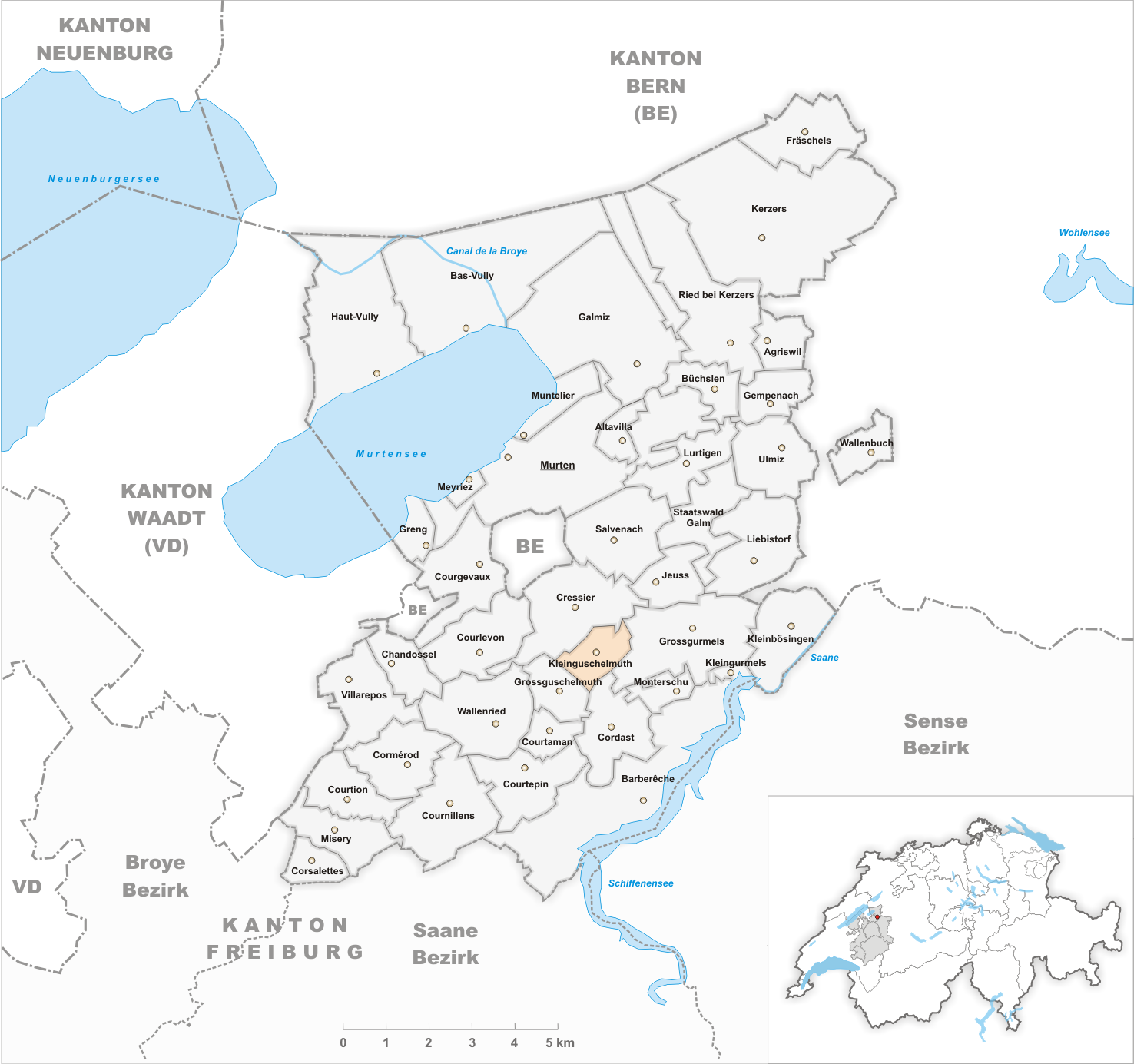 Municipality Kleinguschelmuth Artist: Tschubby